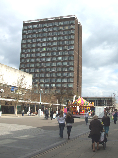 Brooke house, Basildon, Essex.